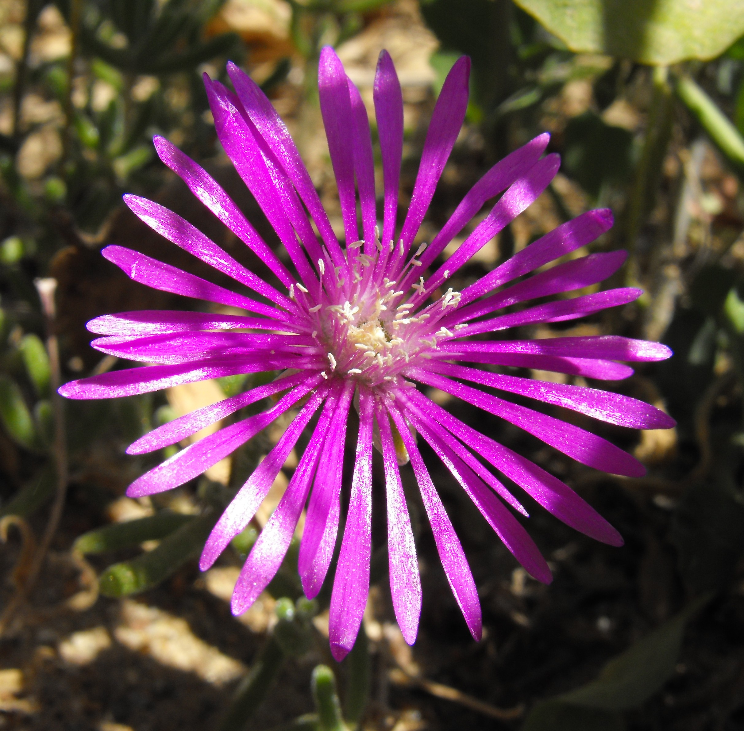 Drosanthemum hispidum at Blue Sky Ecological Reserve in Poway, California, USA.